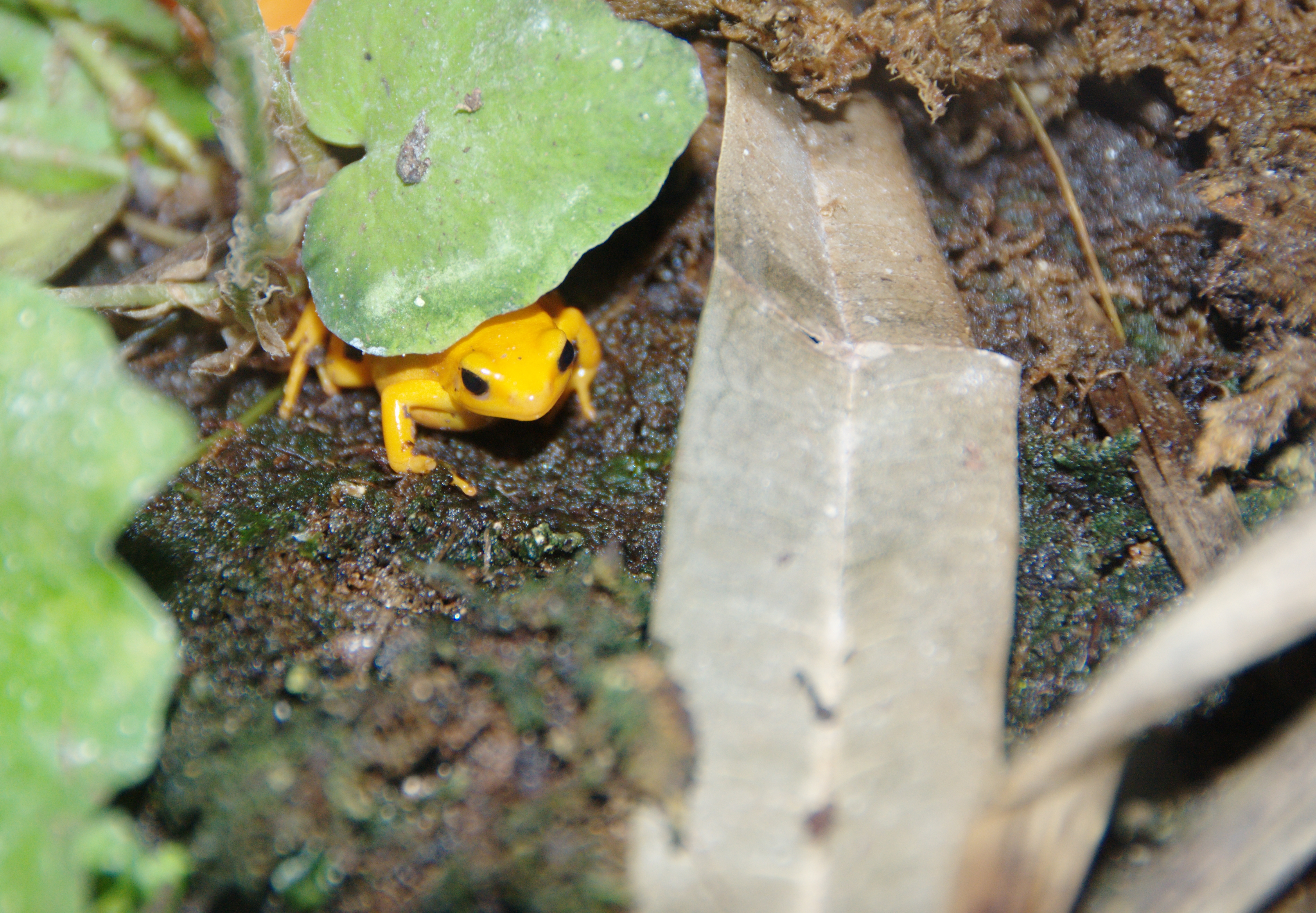 Mantella aurantiaca in the acquario di Genova